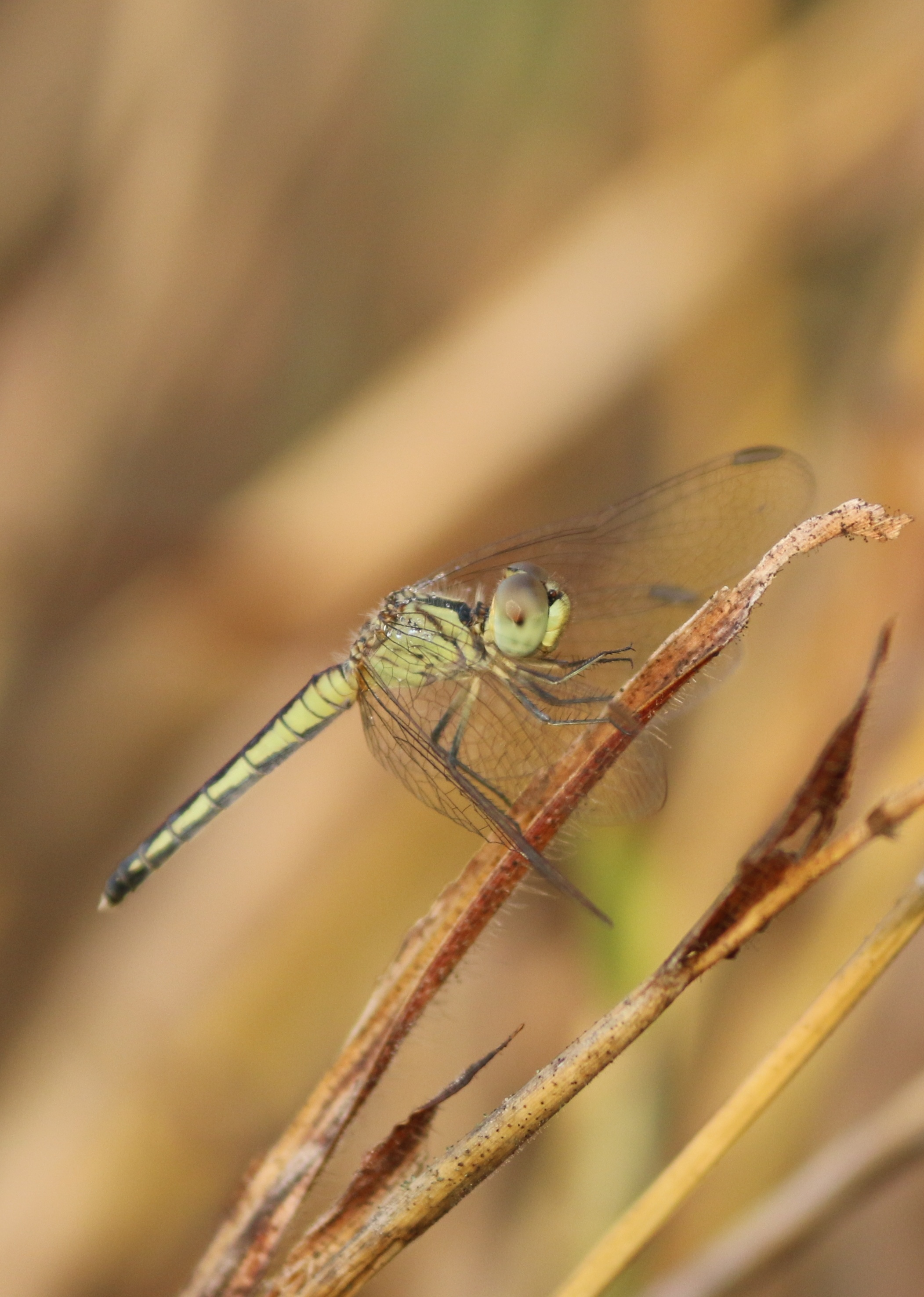 Diplacodes nebulosa female